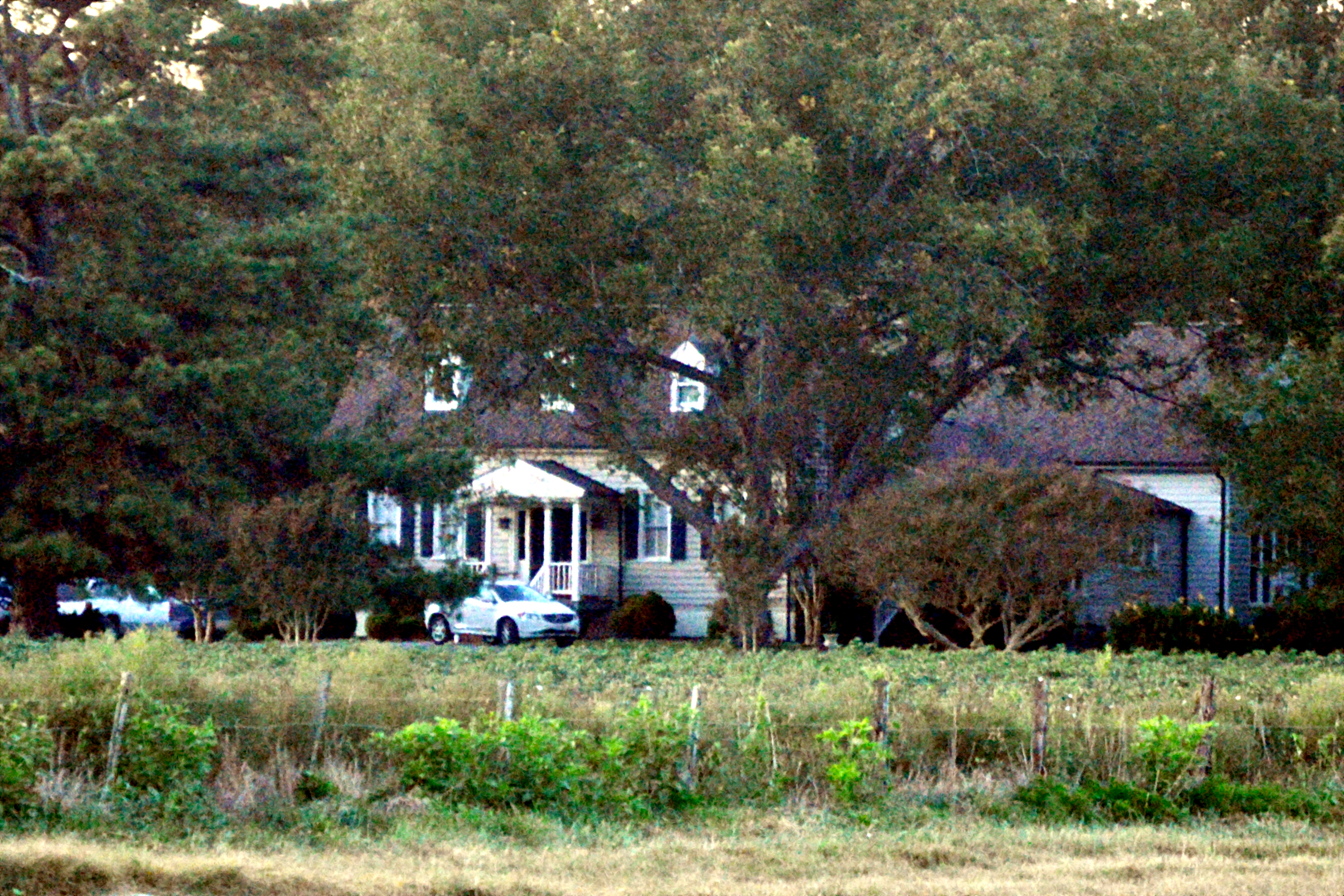 Front of the Belmont estate house, located on Buckhorn Quarter Road east of Capron in Southampton County, Virginia, United States. Built in 1790, it was the site of the concluding episode of Nat Turner's slave rebellion. It is listed on the National Register of Historic Places.